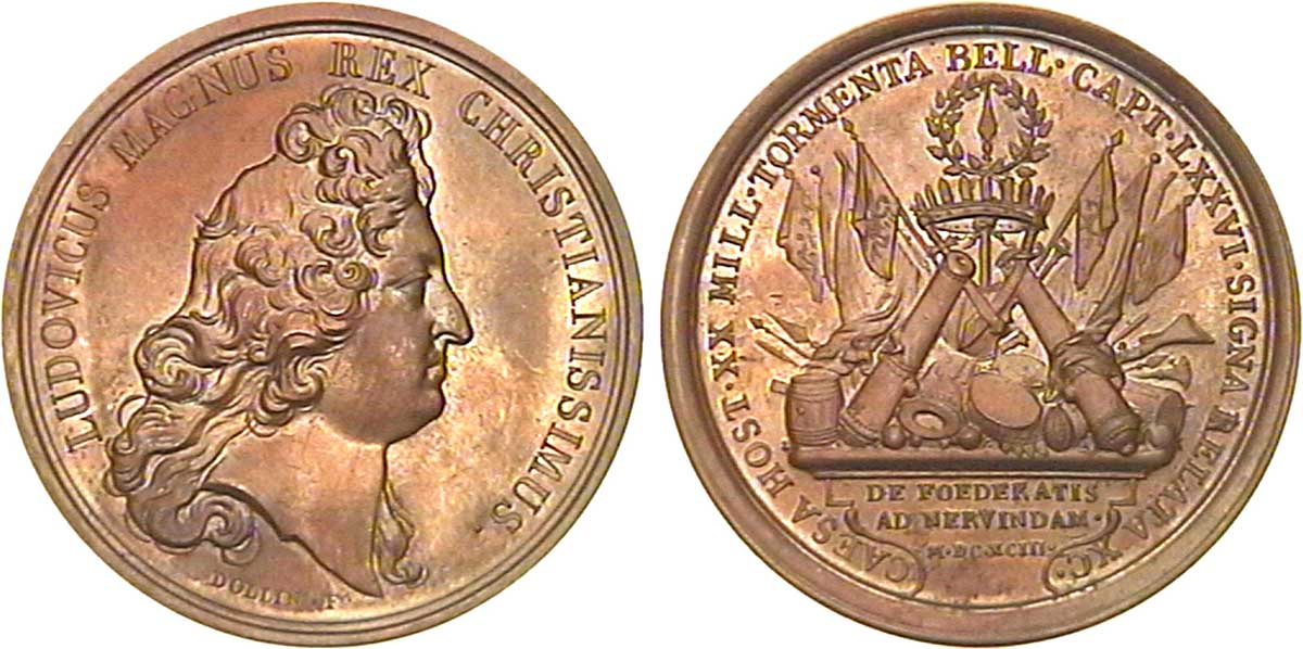 Jeton de la Bataille de Neerwinden frappé en 1693. Cette dernière fut une grande victoire française sur les alliés remportée par le duc de luxembourg qui commandait l’armée de Louis XIV. La déroute de l’ennemi, qui perdit ici plus de vingt mille hommes tués, était complète. De ce champ de bataille, le maréchal prit et envoya à Paris tant de drapeaux qu’on l’appela “le tapissier de Notre-Dame”. Description revers : Un trophée d’armes, des munitions et des drapeaux, surmontés d’une couronne vallaire et d’une couronne de laurier